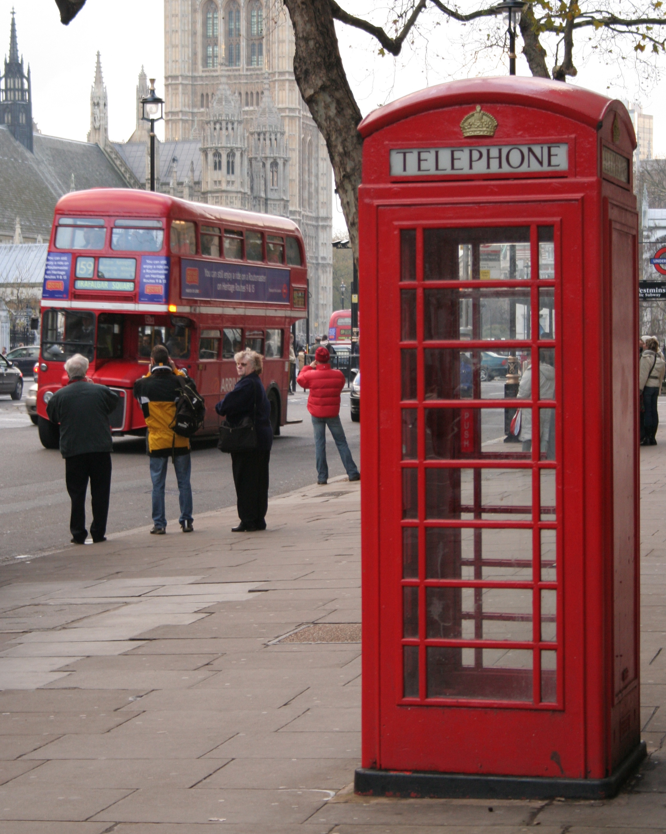 A view of the Palace of Westminster in London, with a classic Routemaster bus on route 159 in the middle ground, and a classic red telephone box in the foreground. The photographer is standing on the west side of Parliament Street, next to the HM Revenue building, looking south east, across the junction with (Westminster) Bridge Street, into St Margarets Street and Abingdon Street. (Bus stop C, Westminster, Parliament Square, and the subway sign for Westminster tube station are partly obscured by the telephone box). The Palace view is of the west facade, with the roof of the Westminster Hall and Victoria Tower in view. The bus is operating route 159 headed north to Trafalgar Square, having presumably just come across Westminster Bridge into Bridge Street and turned right into Parliament Street. The 159 was the last non-heritage bus route to operate with the iconic Routemaster bus, and they were withdrawn from the route the day after this photo was taken, which may or may not explain the presence of the other photographers. The bus is wearing advertising for the heritage Routemaster routes which began operating a month beforehand, in November 2005. There is also another 159 in the background heading south, with route blinds set for Marble Arch (which is to the north). A possible explanation for this paradox is that this bus is operating a short working of the route, possibly to cater for the extra demand due to its imminent conversion, and it is going to use Parliament Square to turn around and head north, with the conductor having already changed the route blinds in anticipation (due to the one way system, southbound 159 buses headed for Streatham also go straight on and around the square, instead of simply turning left into Bridge street).